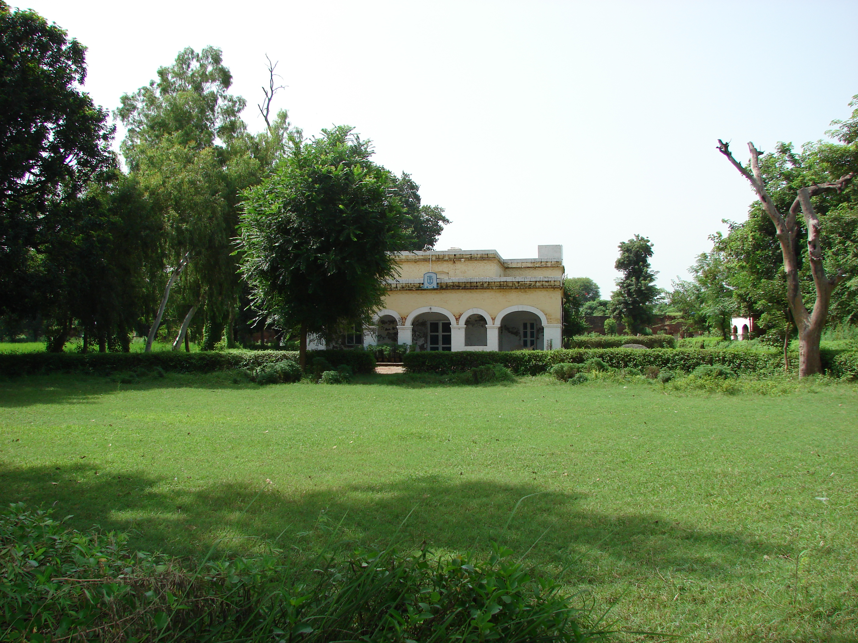 Built by irrigation department in 1915 during British Raj, Busal Irrigation rest house or Bangla Busal was a splendid looking building with a glory no less than an imperial palace. A large variety of flora and numerous species of tweeting birds made it a piece of heaven on earth. But due to lack of interest of the irrigation department and damage caused by the stealth of precious building material by employees and people of the village, this fantastic example of classical architecture has turned into ruins and requires immediate attention of irrigation authorities for preservation of this piece of heritage